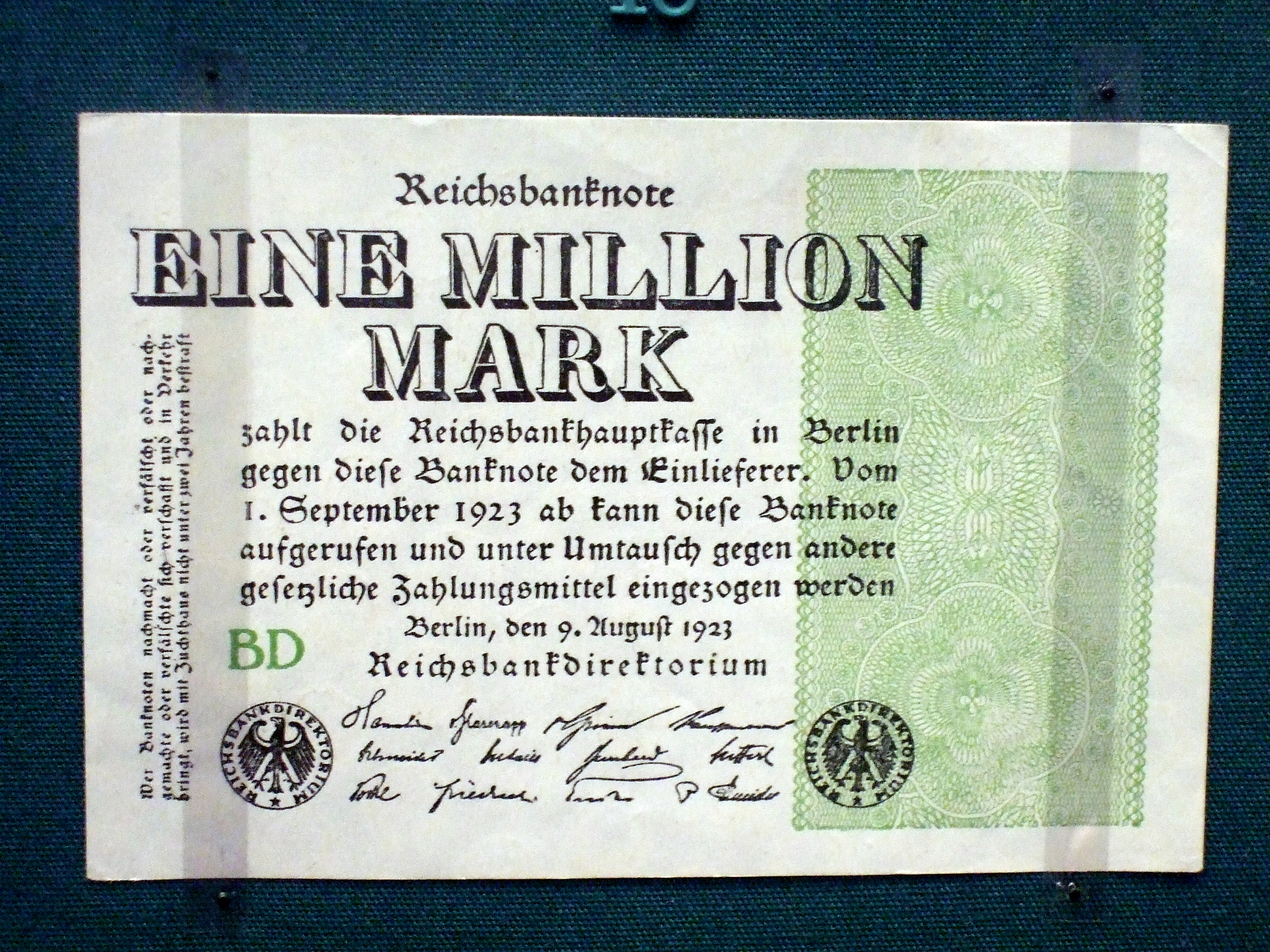 Picture of a Reichsbanknote for 1 million marks. The translation is something like: "The main cashier's office of the Reichsbank will pay the bearer 1 million marks in exchange for this note. From 1 September 1923 on this note can be redeemed or exchanged for other legal methods of payment. Berlin, 9 August 1923, the Reichsbank board of governors". The vertical text on the left warns of a minimum 2 year imprisonment for counterfeiters